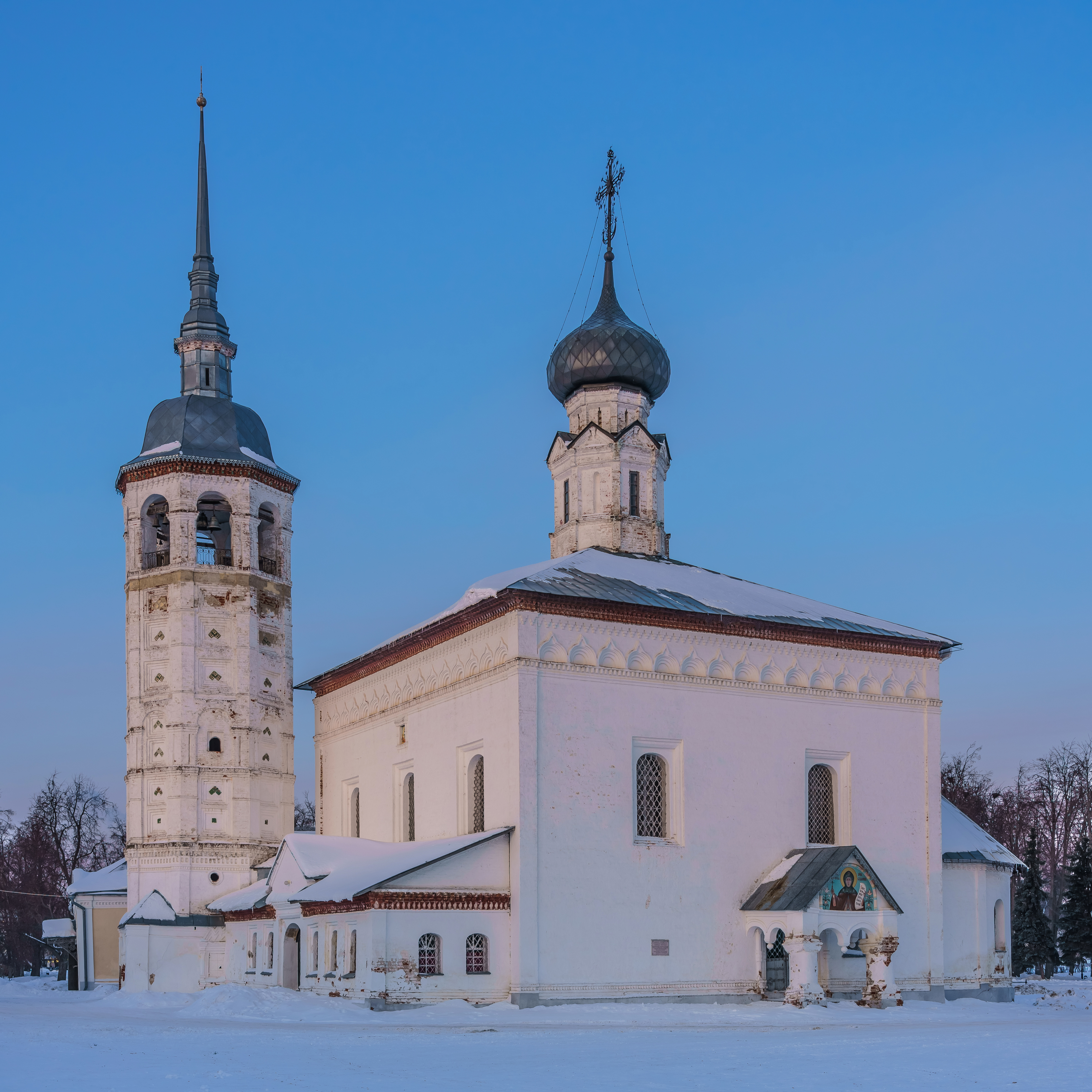 Church of the Resurrection of Christ in Suzdal, Russia